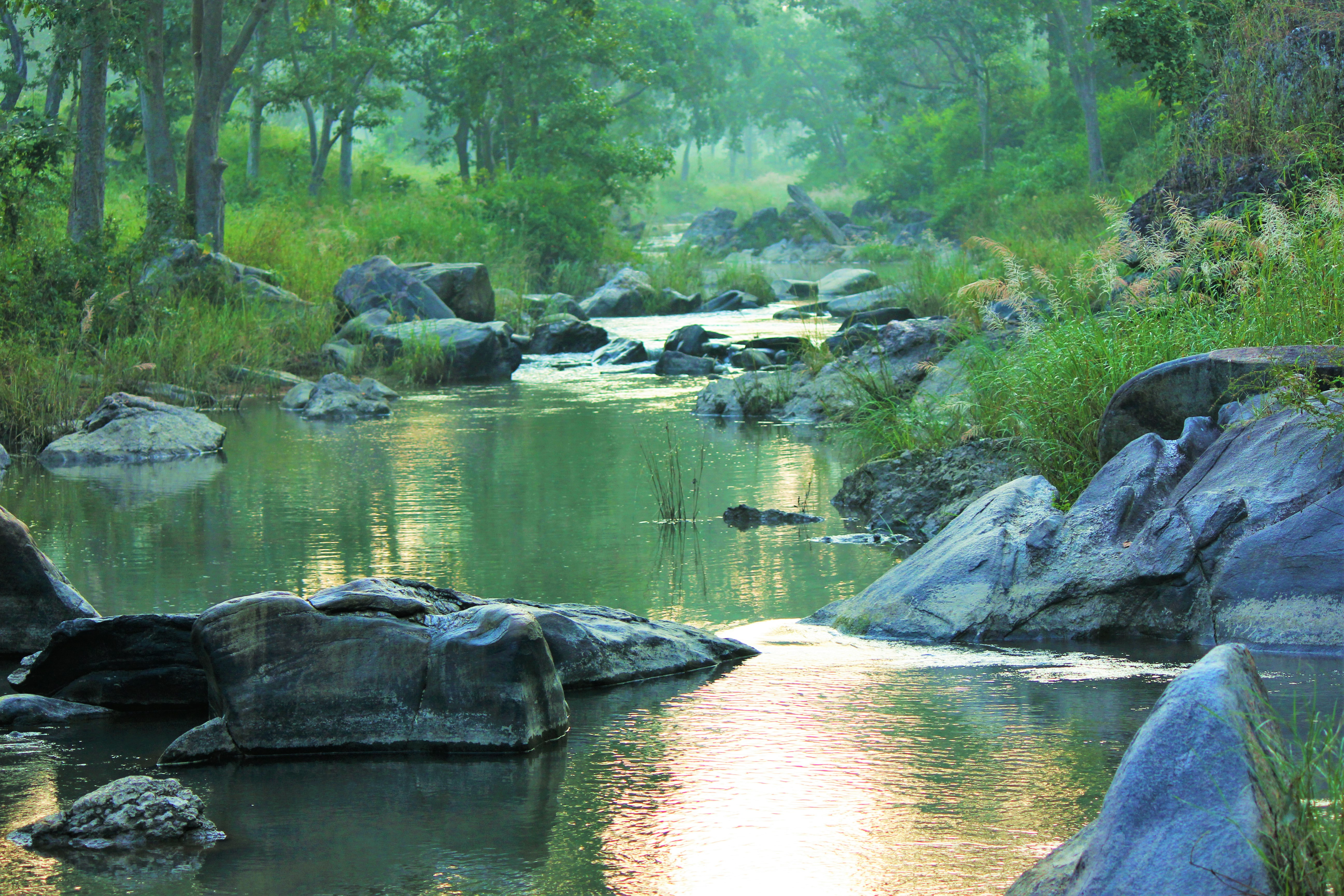 The Banjar river Kanha Tiger Reserve act as a lifeline of the jungle quenching the thirst of thousands of living organisms. Kanha Tiger Reserves has maximum numbers of Tigers in the world living in the wild and is part of Madhya Pradesh state in India.